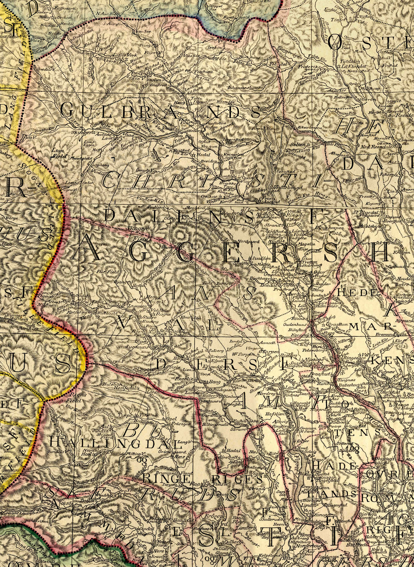 Map over Southern Norway in 1785 drawn by Christian Jochum Pontoppidan.